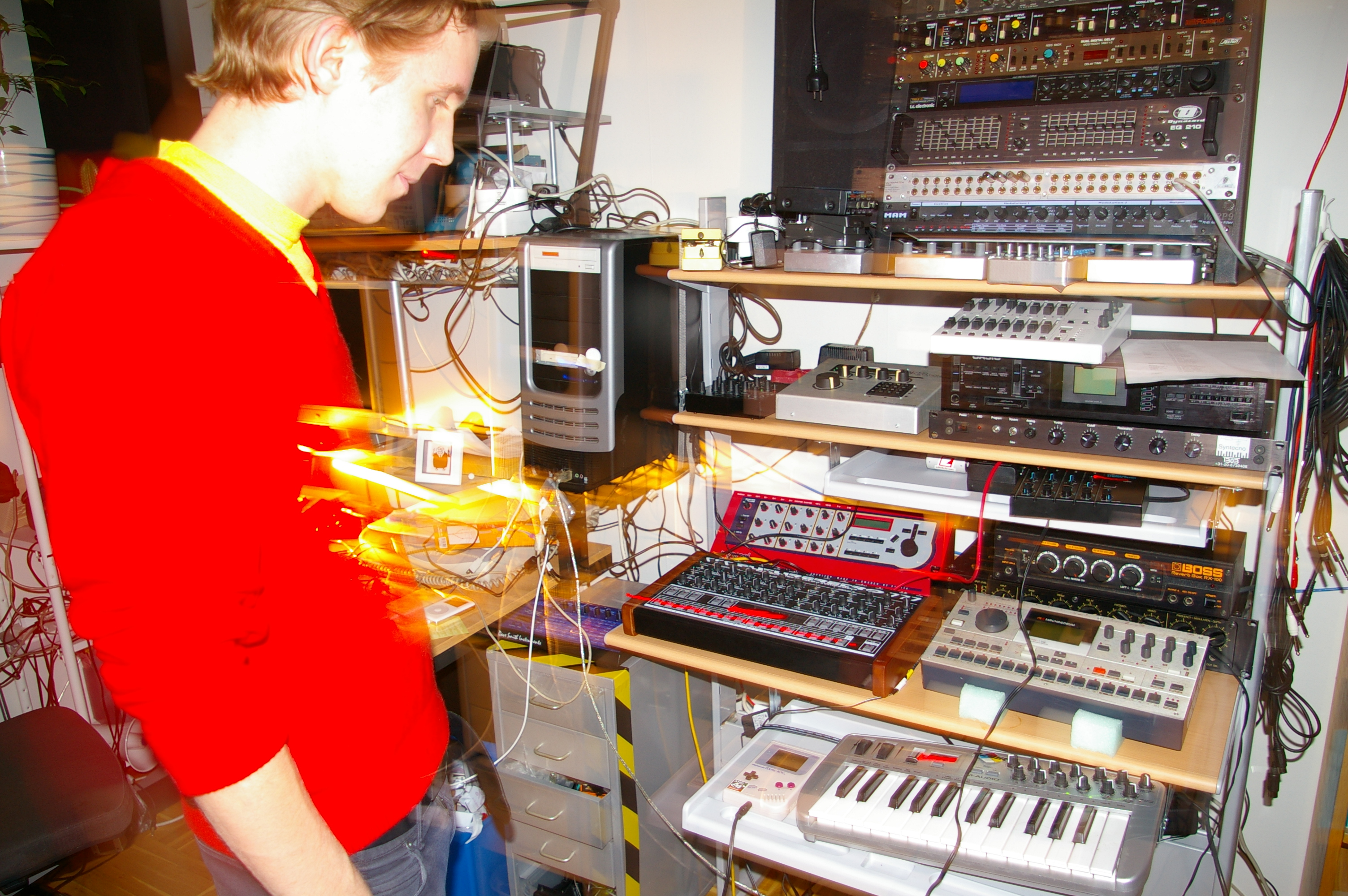 zthee of community was here visiting, buying an a-frame keyboard stand i had no use for